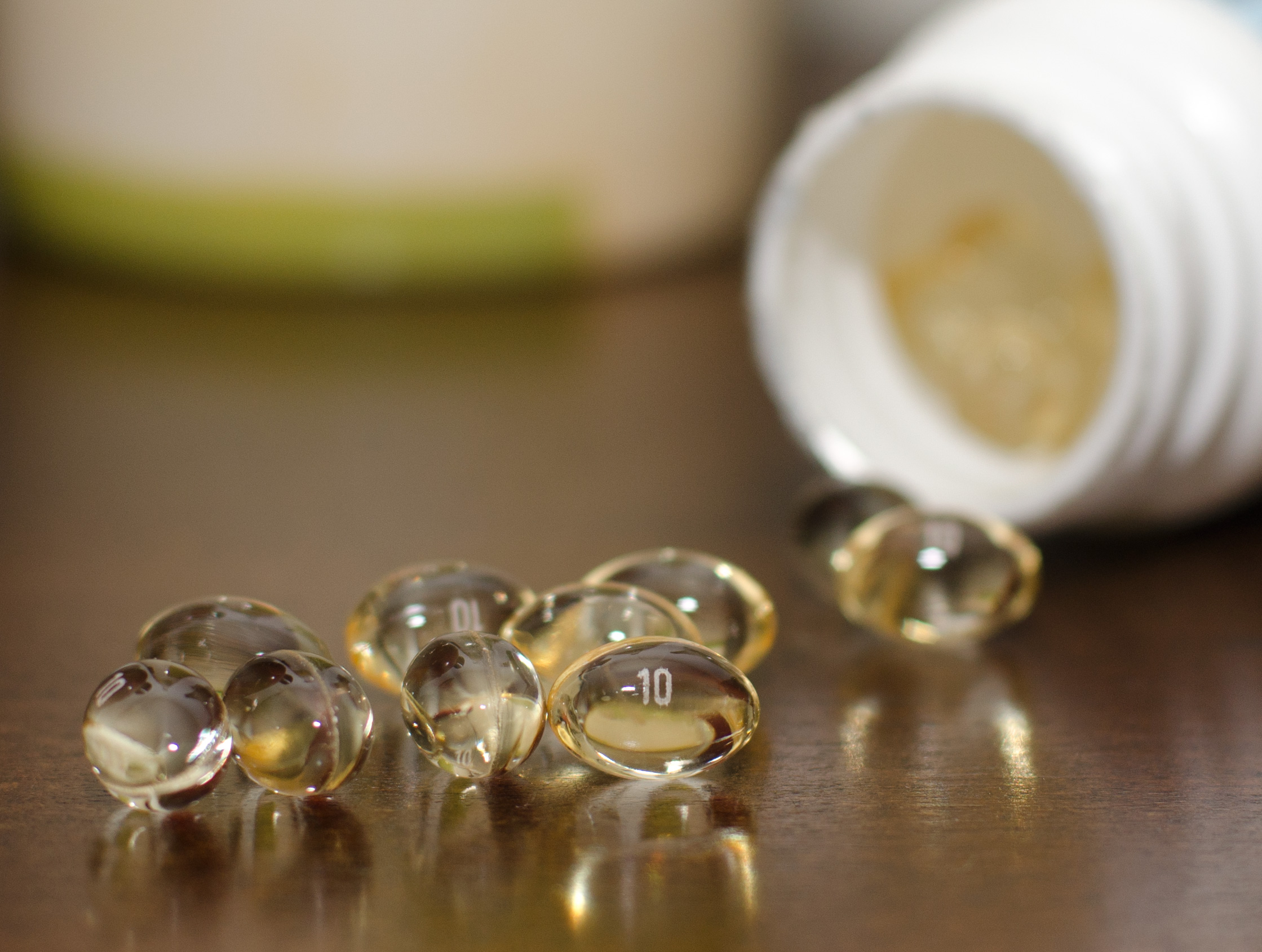 A photograph of softgels on a table, with the bottle they came from in the background.